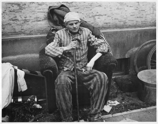 This starved man with his cane, is one of the liberated inmates of Lager Nordhausen, Gestapo concentration camp near Nordhausen, Germany. Liberated by U.S. First Army troops, the inmates of the camp came from all occupied countries and also included Germans who where political prisoners. The concentration camp, according to G-2, 104th Infantry Division, U.S. First Army, contained from 3.000 to 4.000 inmates. Several hundred died of starvation or where shot by Gestapo men and all where maltreated, beaten and starved. 12. April 19